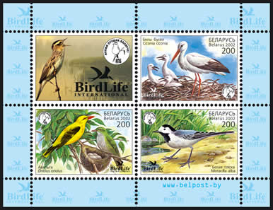 Stamp of Belarus